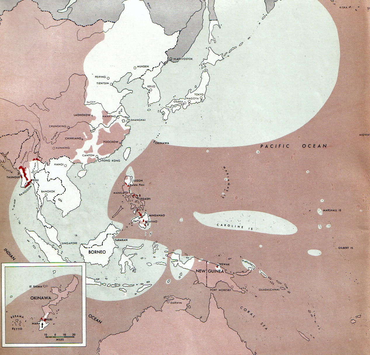 Map of the front against Japan as of 15 May 1945: This map is taken from the source "Atlas of the World Battle Fronts in Semimonthly Phases to August 15th 1945: Supplement to The Biennial report of The Chief of Staff of the United States Army July 1, 1943 to June 30 1945 To the Secretary of War". (See Cover, Forward and Map details)